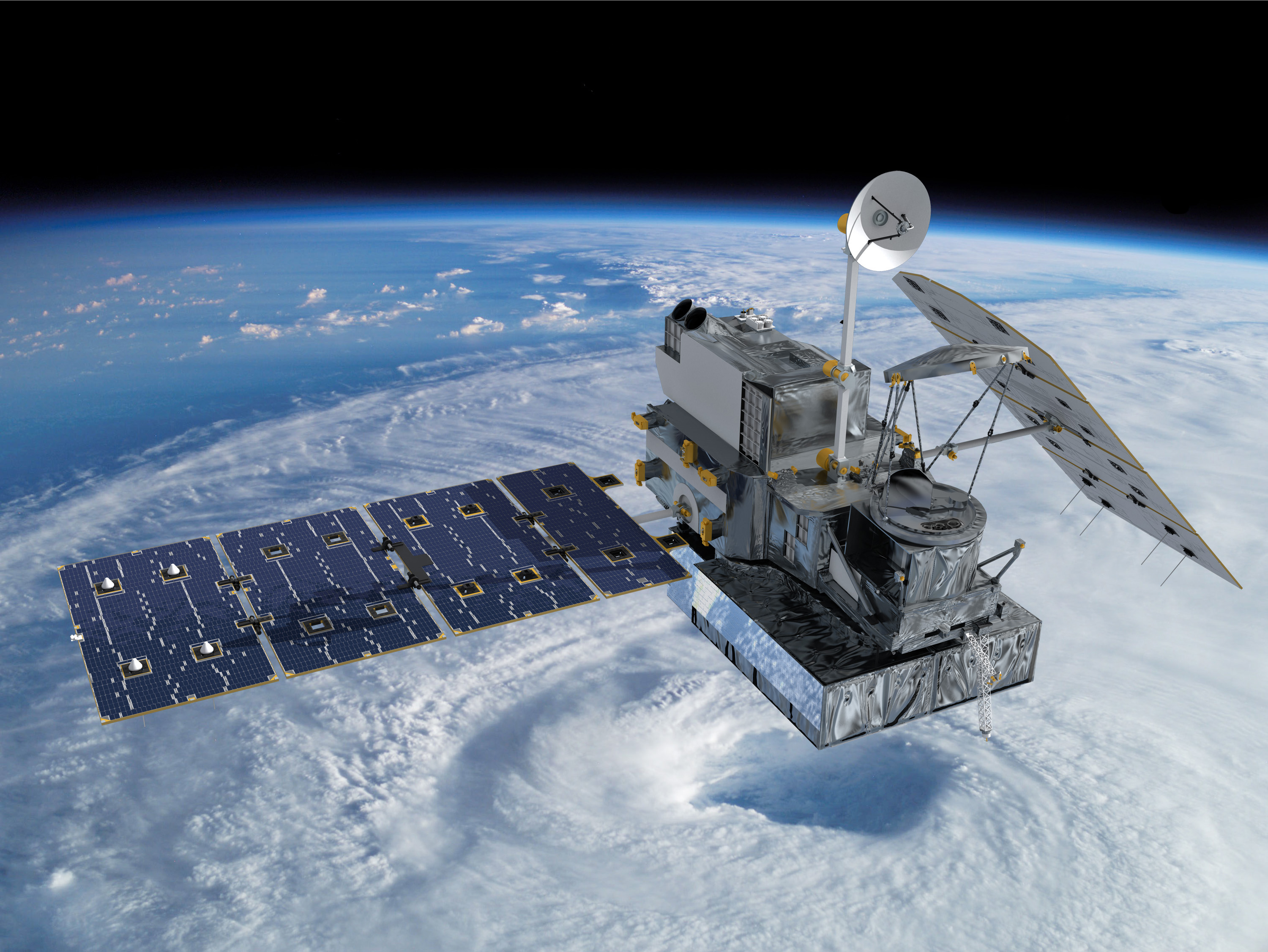 Artist concept of the Global Precipitation Measurement (GPM) Core Observatory satellite.